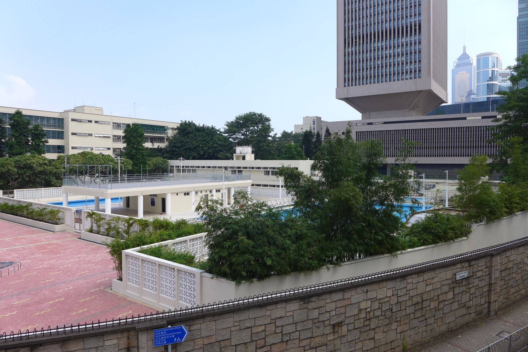 Chinese People's Liberation Army Forces Hong Kong Building